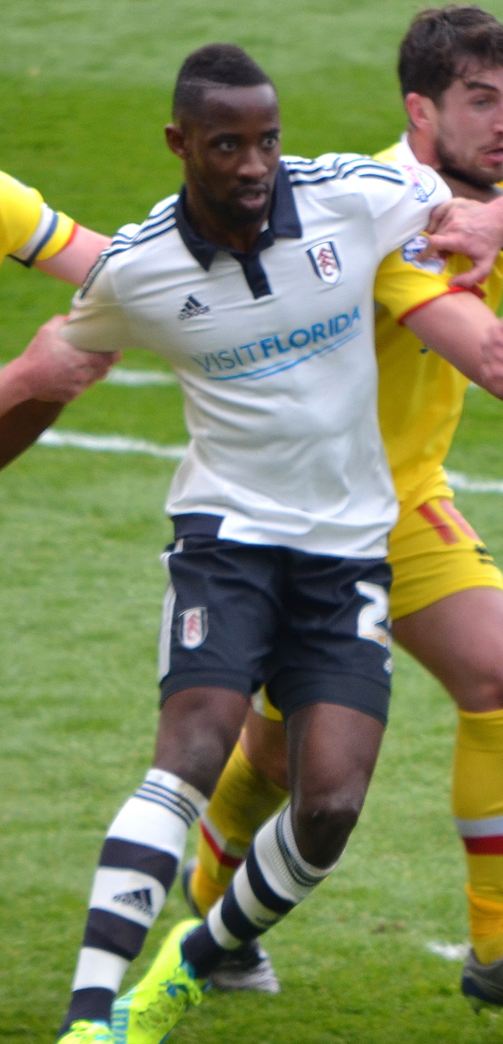 Moussa Dembélé playing for Fulham against Milton Keynes Dons at Craven Cottage, London on 2 April 2016